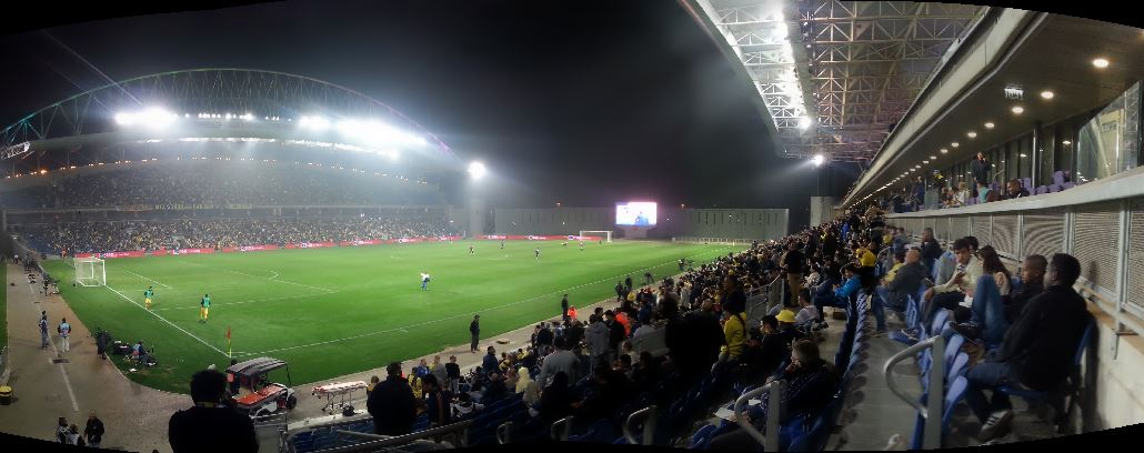 Netanya Stadium during the match between Maccabi Tel Aviv F.C. and Hapoel Haifa F.C.